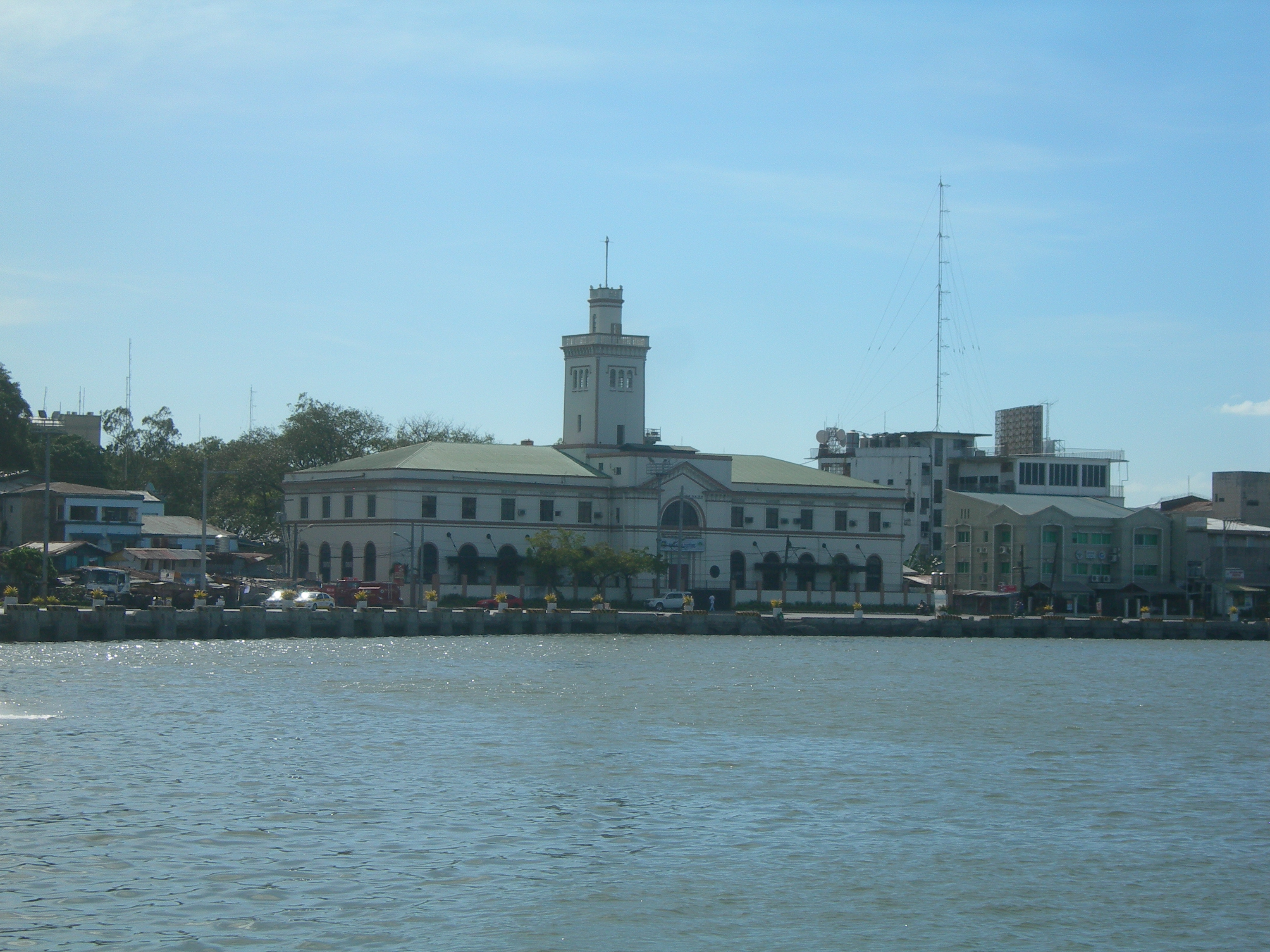 Customs House on the Iloilo River, Iloilo City, the Philippines